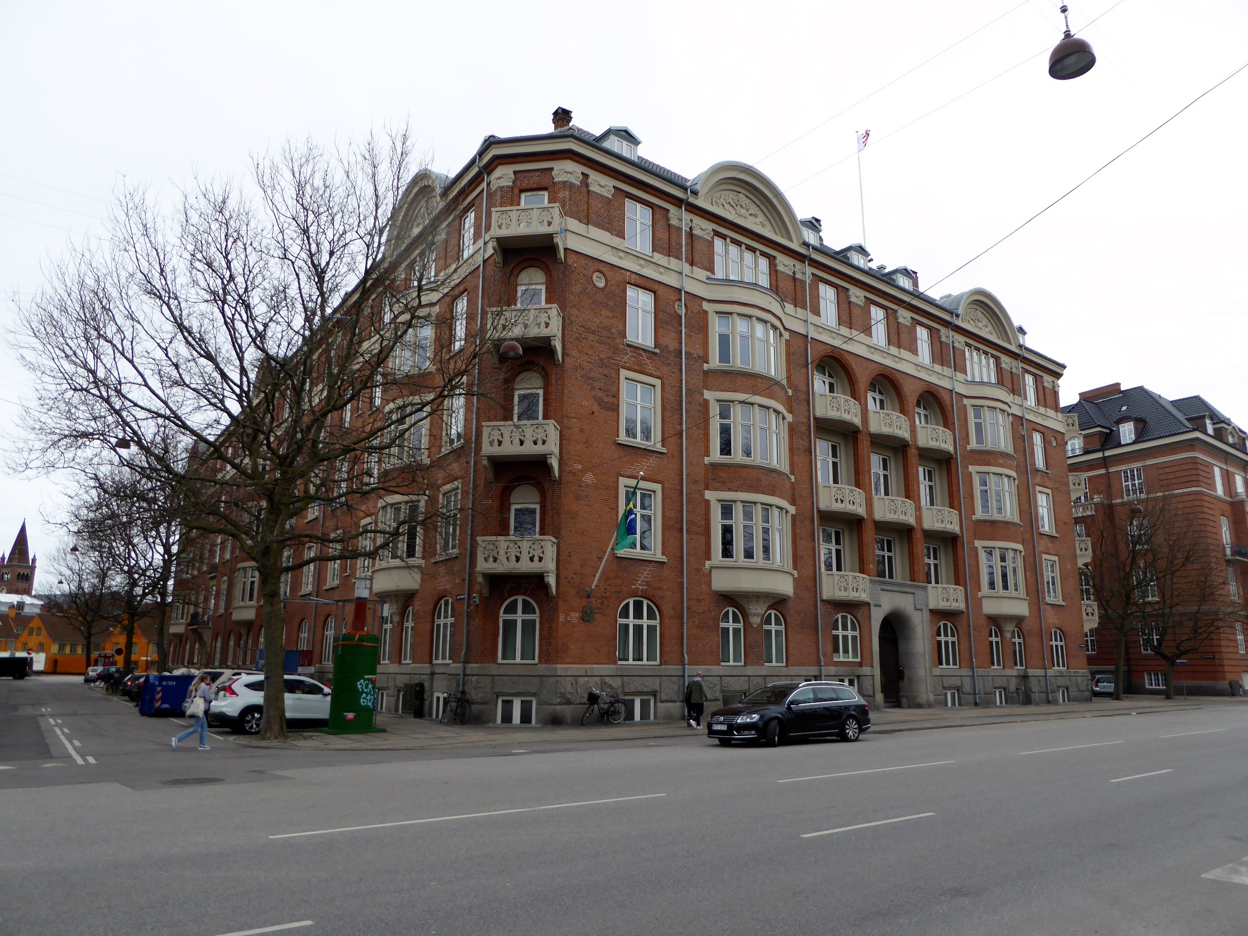 The embassy of Brazil at the corner of Jens Kofods Gade and Grønningen in Indre By in Copenhagen.